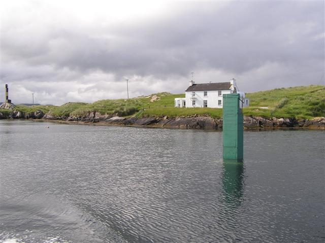 Heading to Arranmore Island Passing Rutland Island to the south-west